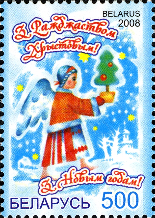 Stamp of Belarus